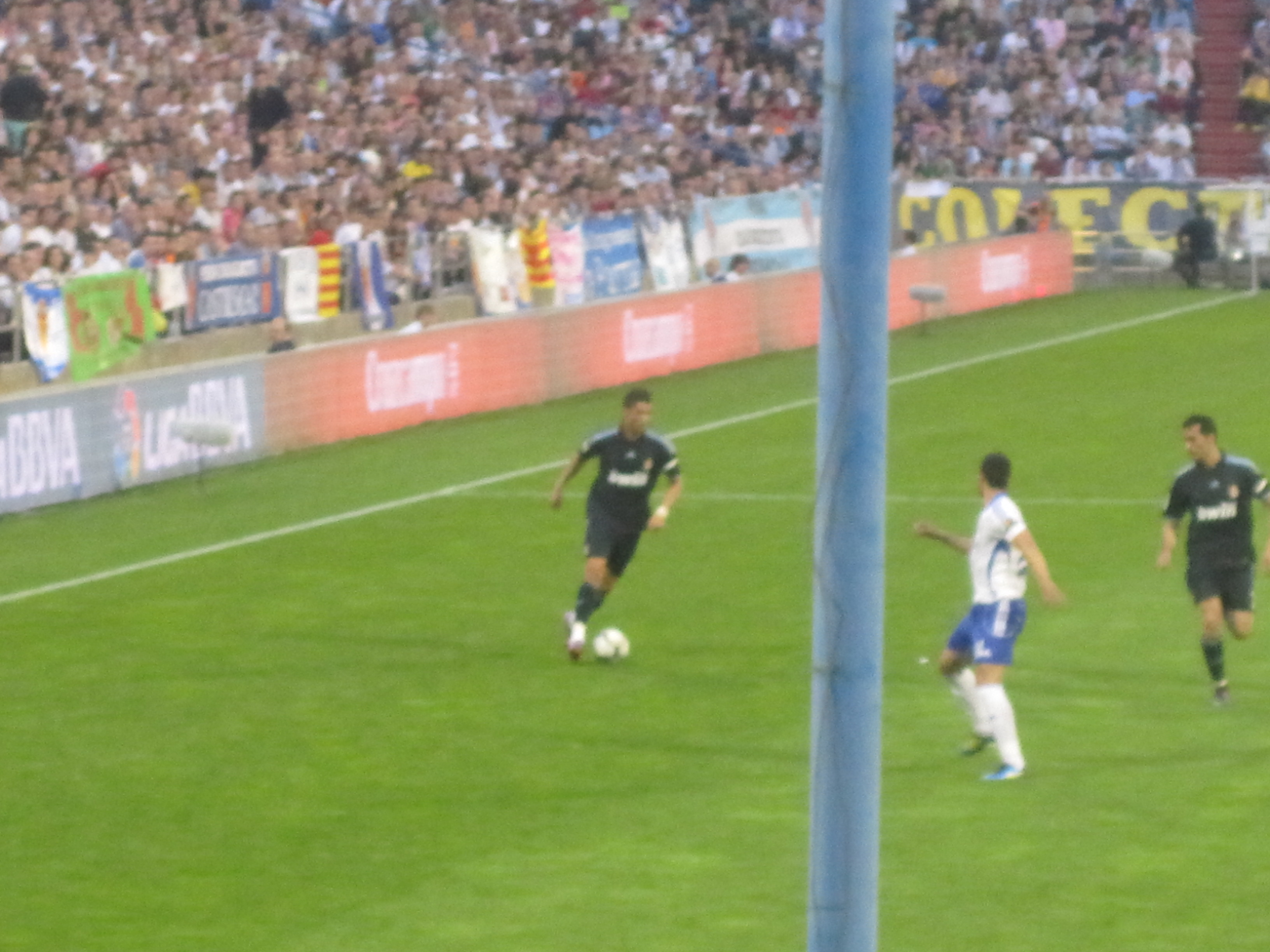 Cristiano Ronaldo.